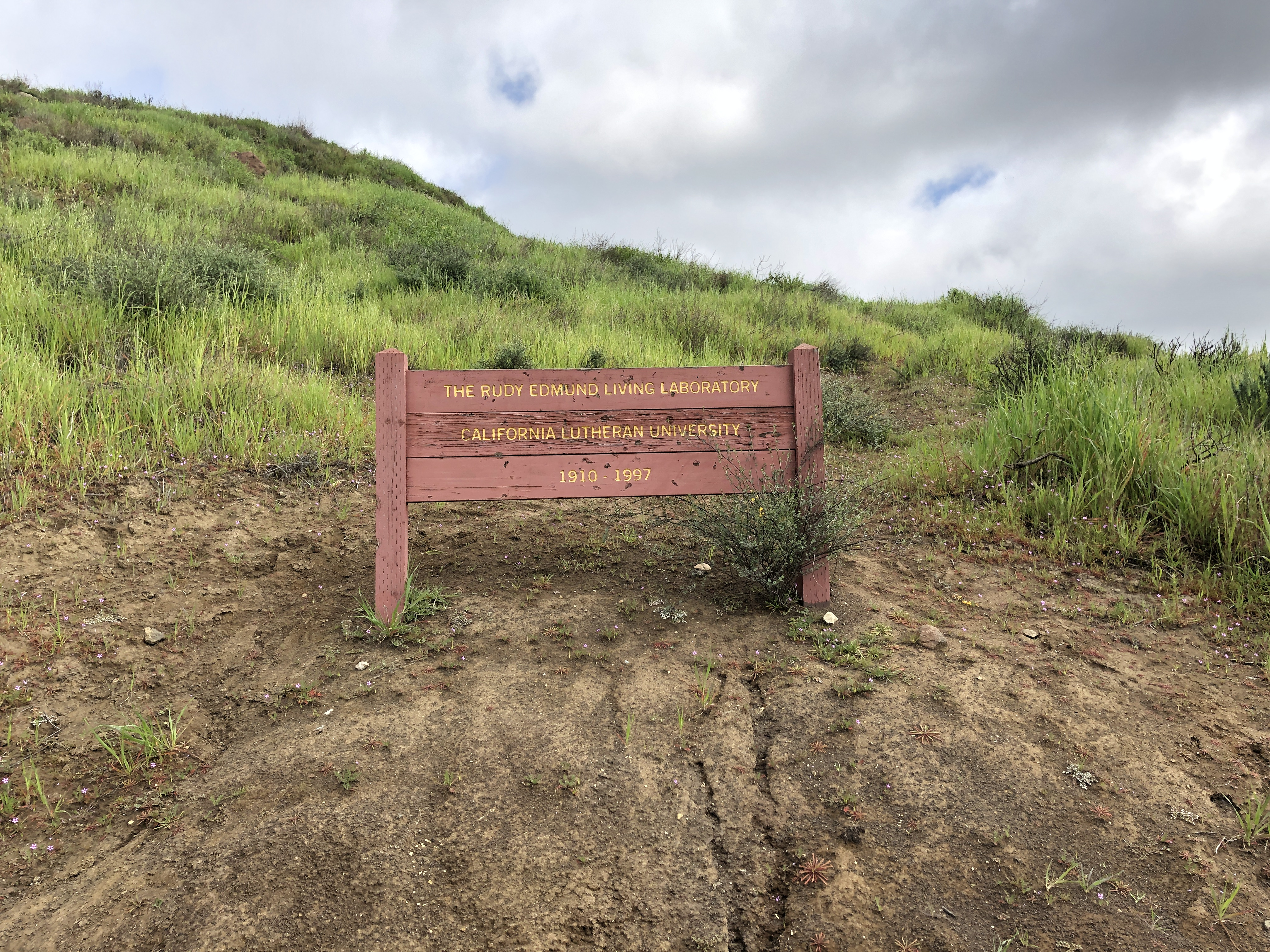 Rudy Edmund Living Laboratory at California Lutheran University.